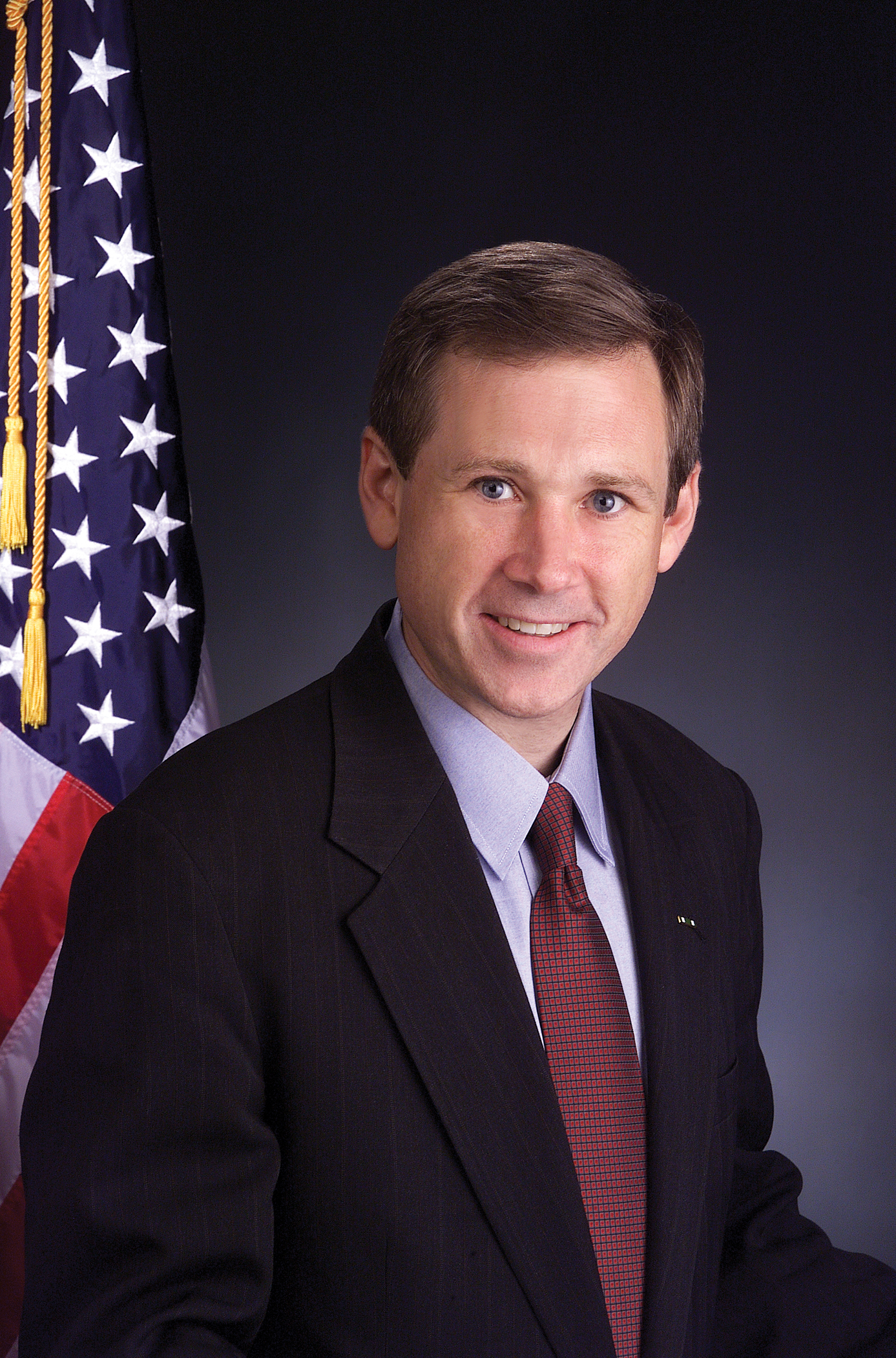 Mark Kirk, U.S. Senator, former Congressman (R-Illinois, 2001-2010)